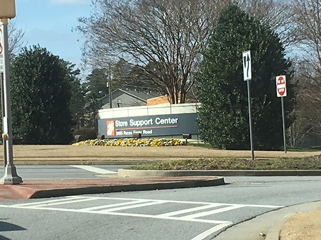 Home Depot Headquarters Atlanta Store Support Center Signage